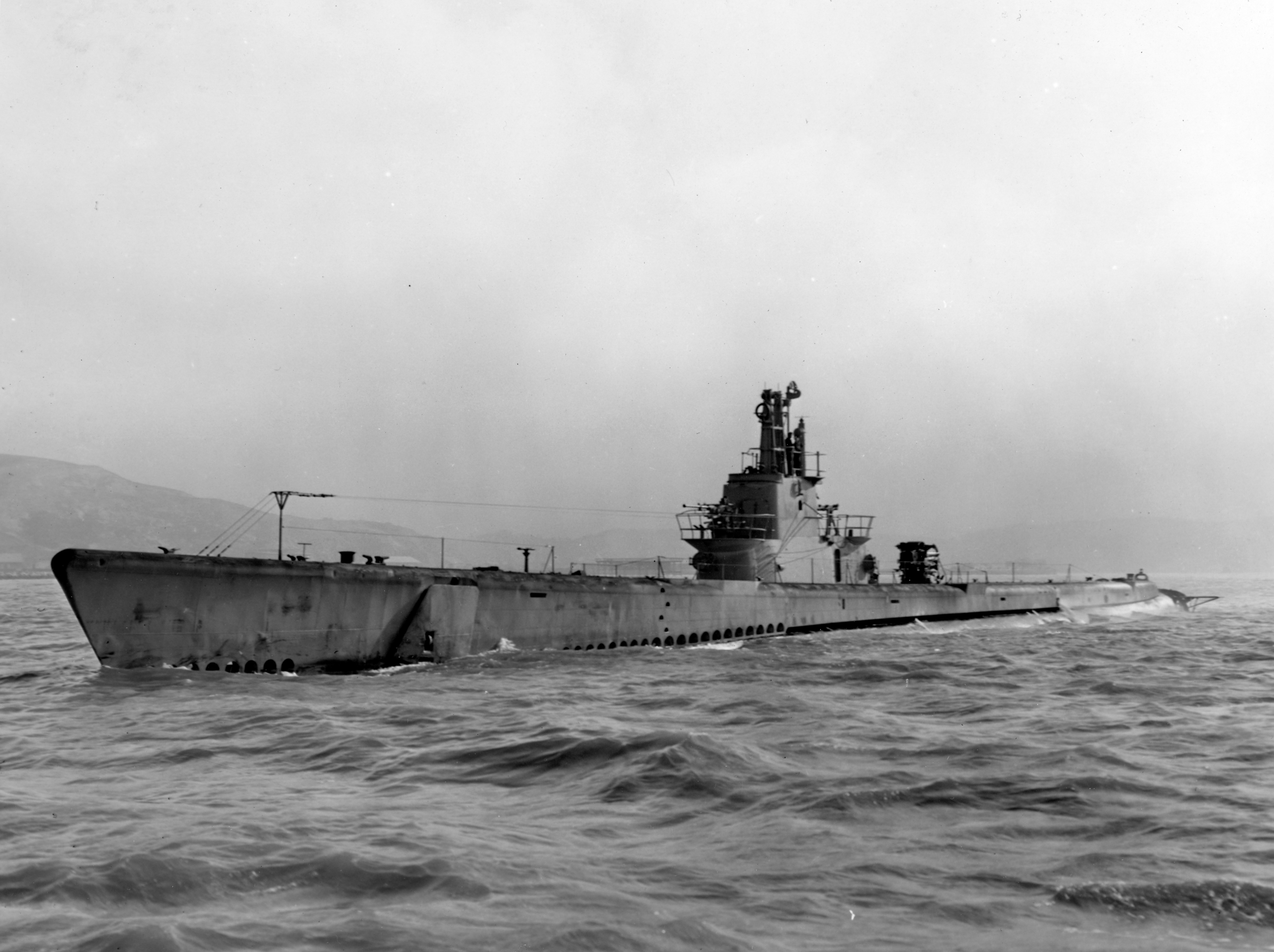 The U.S. Navy submarine USS Barb (SS-220) in San Francisco Bay, near the Mare Island Navy Yard, California (USA), 3 May 1945.